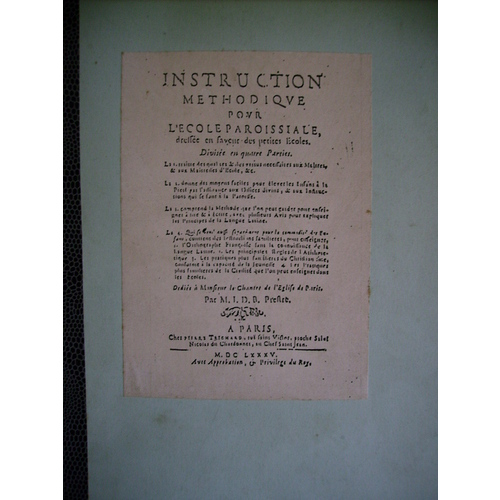 Instruction Méthodique Pour L'école Paroissiale Dressée En Faveur Des Petites Écoles Auteur : M.I.D.B. Prêtre, Anonyme Editeur : Pierre Trichard, Rue Saint Victor, Paris Langue : Français Parution : 1685